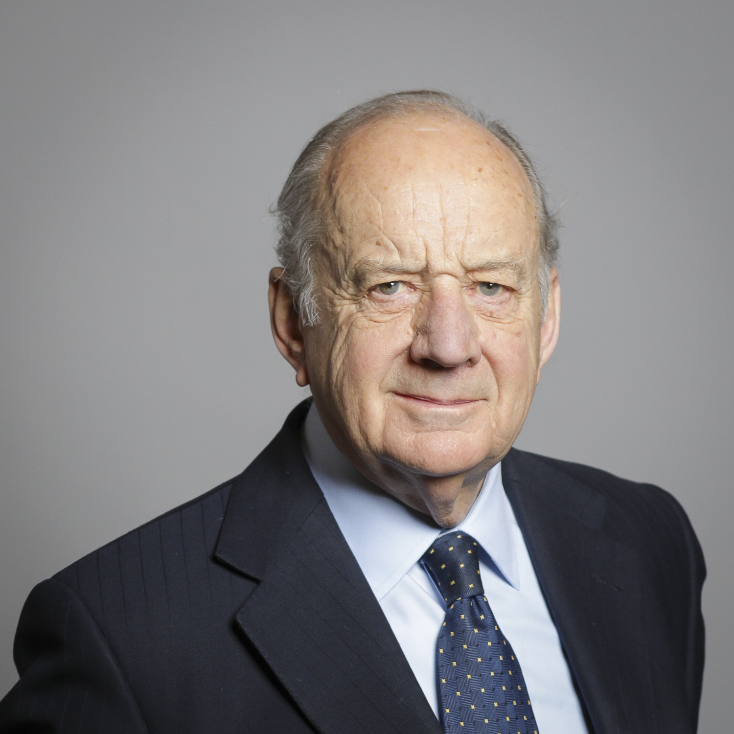 Official portrait of Lord Cope of Berkeley 1×1 portrait of Lord Cope of Berkeley